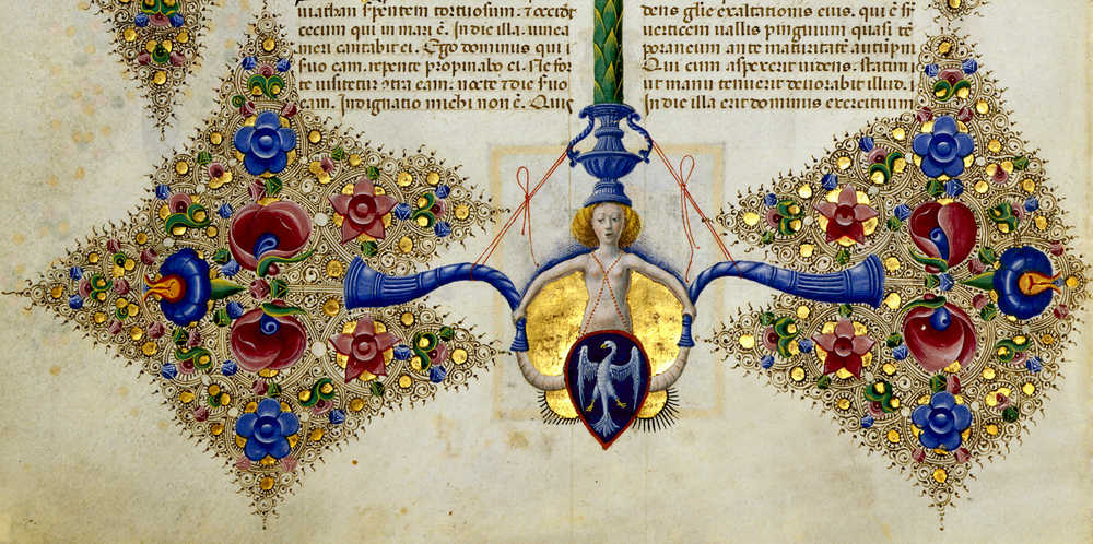 CRIVELLI, Taddeo Bible of Borso d'Este Illumination on parchment Biblioteca Estense, Modena